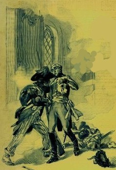 A member of émigré armies saved by a soldier of the french revolutionary armies.